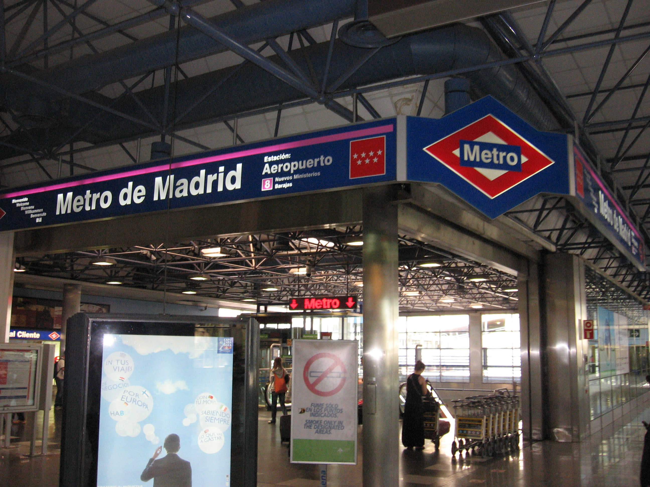 Line 8 underground station in the Terminals 1, 2 and 3 of Madrid Barajas Airport.